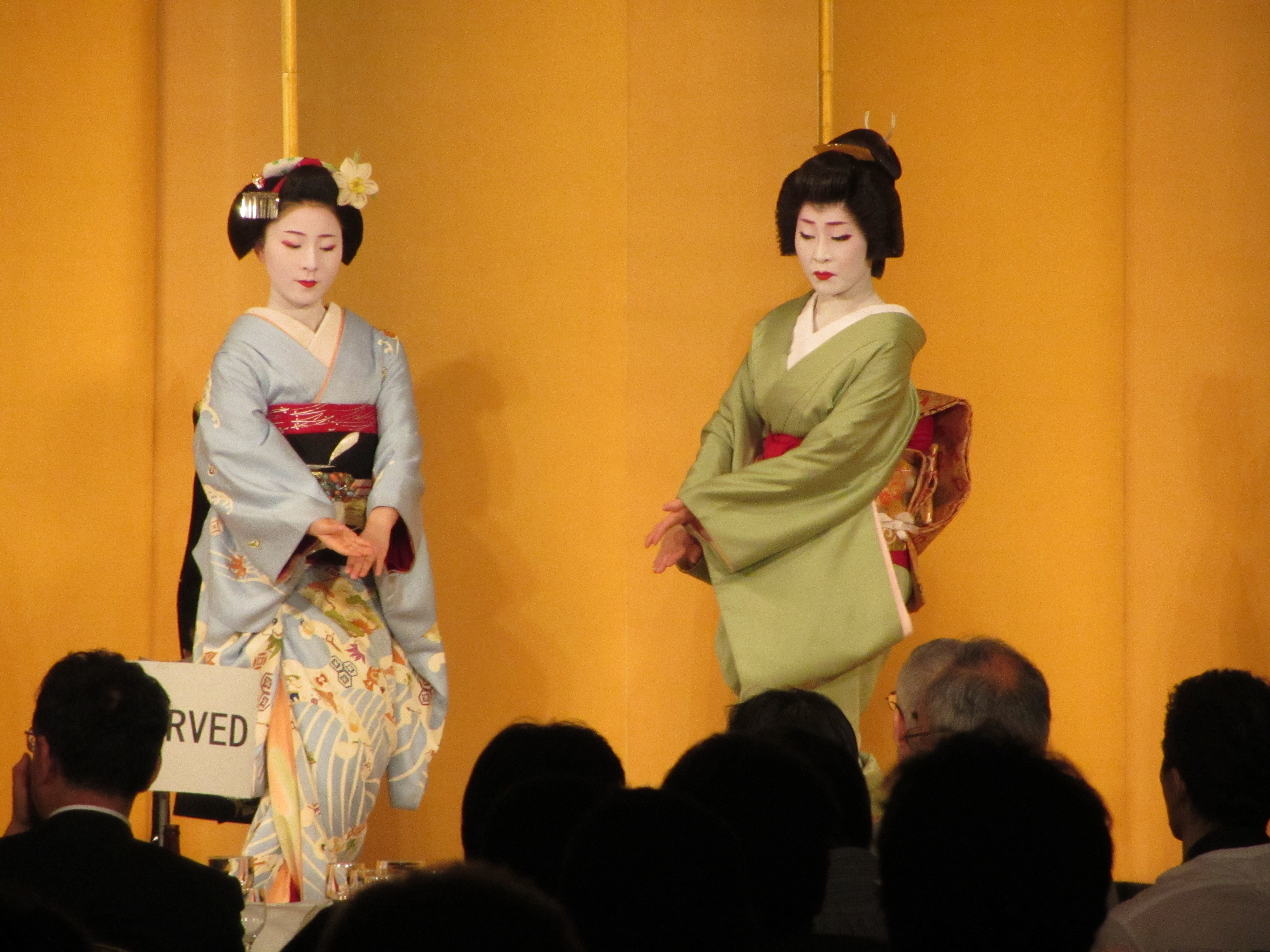 Maiko Makino (left) and geiko Koyou dancing